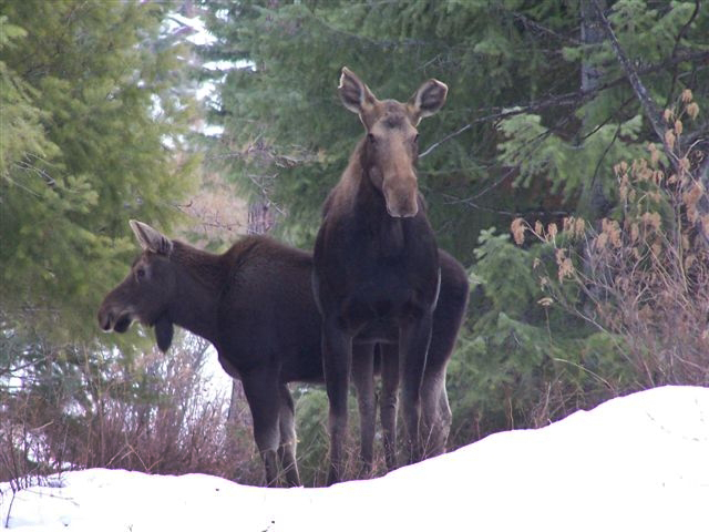 Shiras Moose female with calf near the Grande Ronde River in 2008. (Low Resolution only)